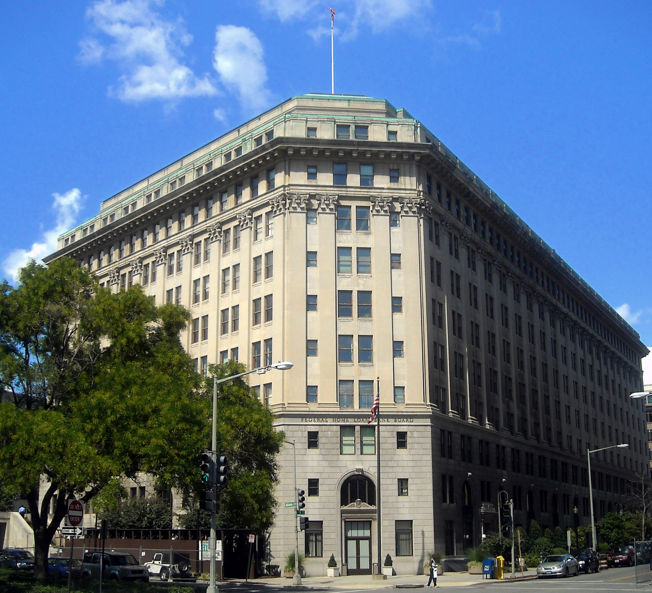 The Federal Home Loan Bank Board Building located at 320 1st Street NW in Washington, D.C. Completed in 1928, the Classical Revival building was designed by architect George E. Mathews. It was listed on the District of Columbia Inventory of Historic Sites and National Register of Historic Places in 2007. Previously the federal headquarters of the Home Owners' Loan Corporation (HOLC), it is currently occupied by the Central Office of the Federal Bureau of Prisons.